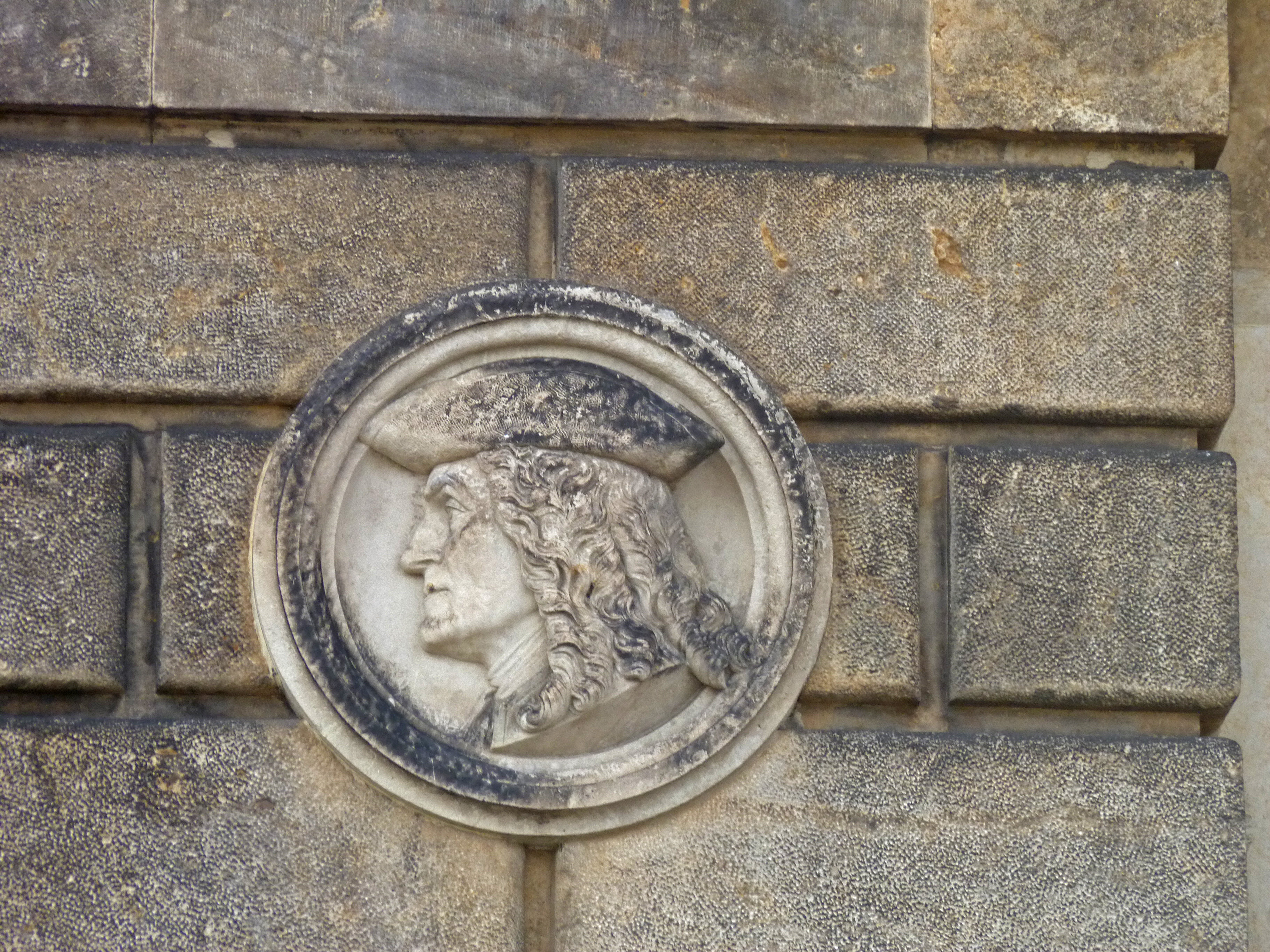 Medaillon on the wall of the Dresden Academy of Fine Arts, Dresden, Germany